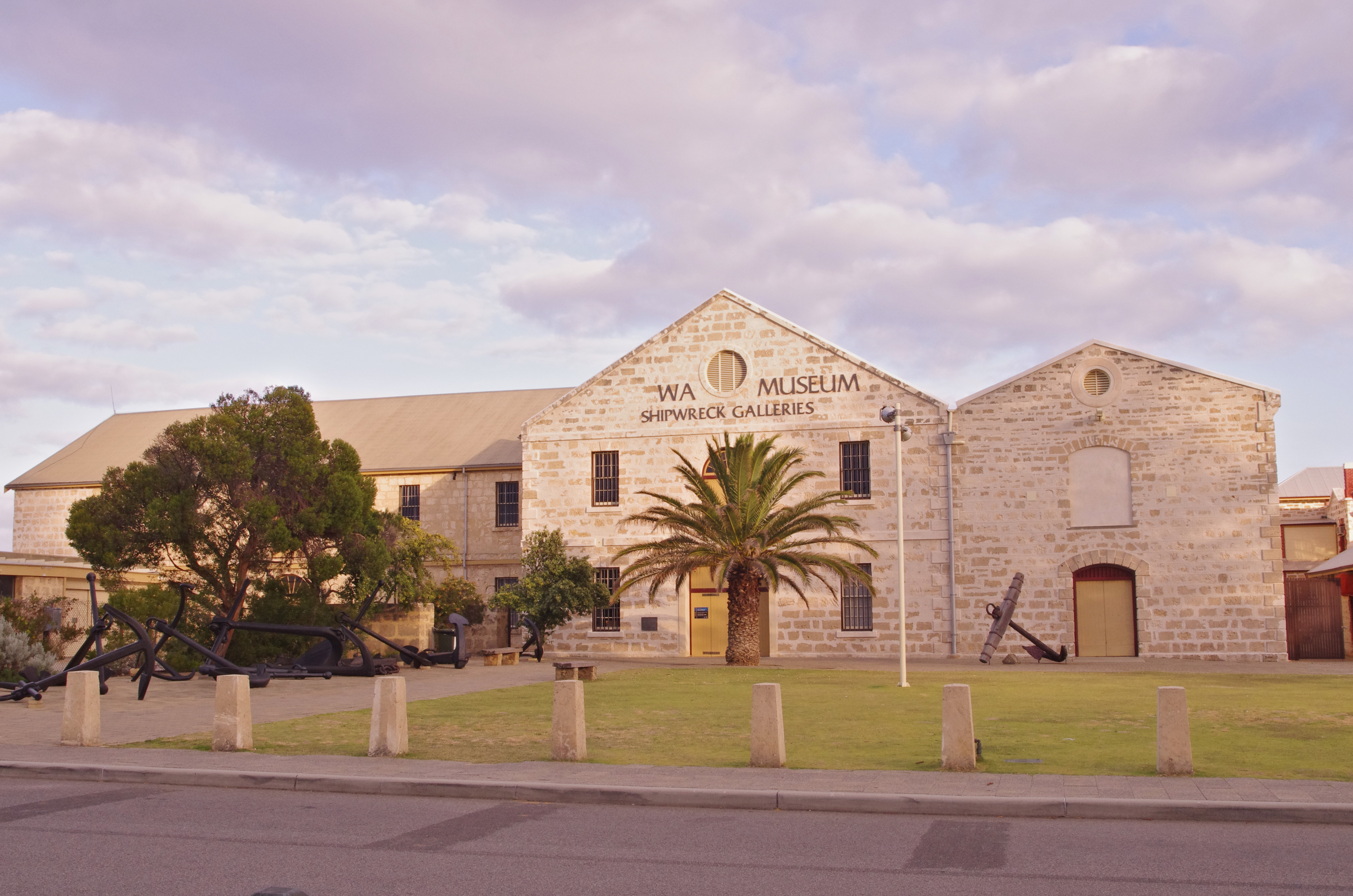 Object location32° 03′ 26.61″ S, 115° 44′ 33.5″ E Commissariat Buildings, WA Maritime Museum -- Shipwreck Galleries